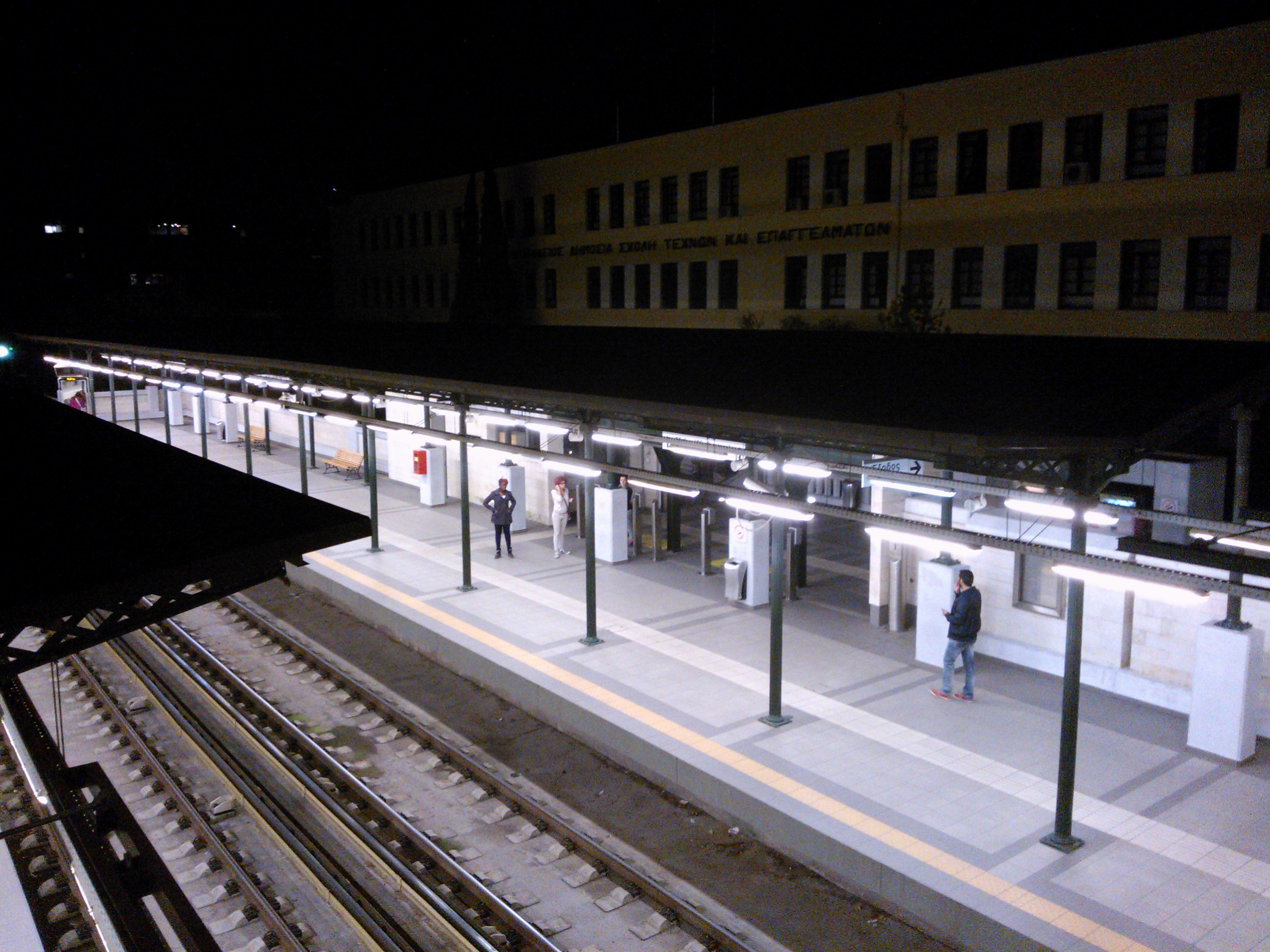 Kallithea station at night in November 2013